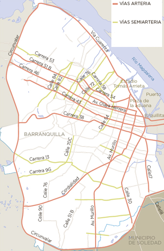 Barranquilla's streets